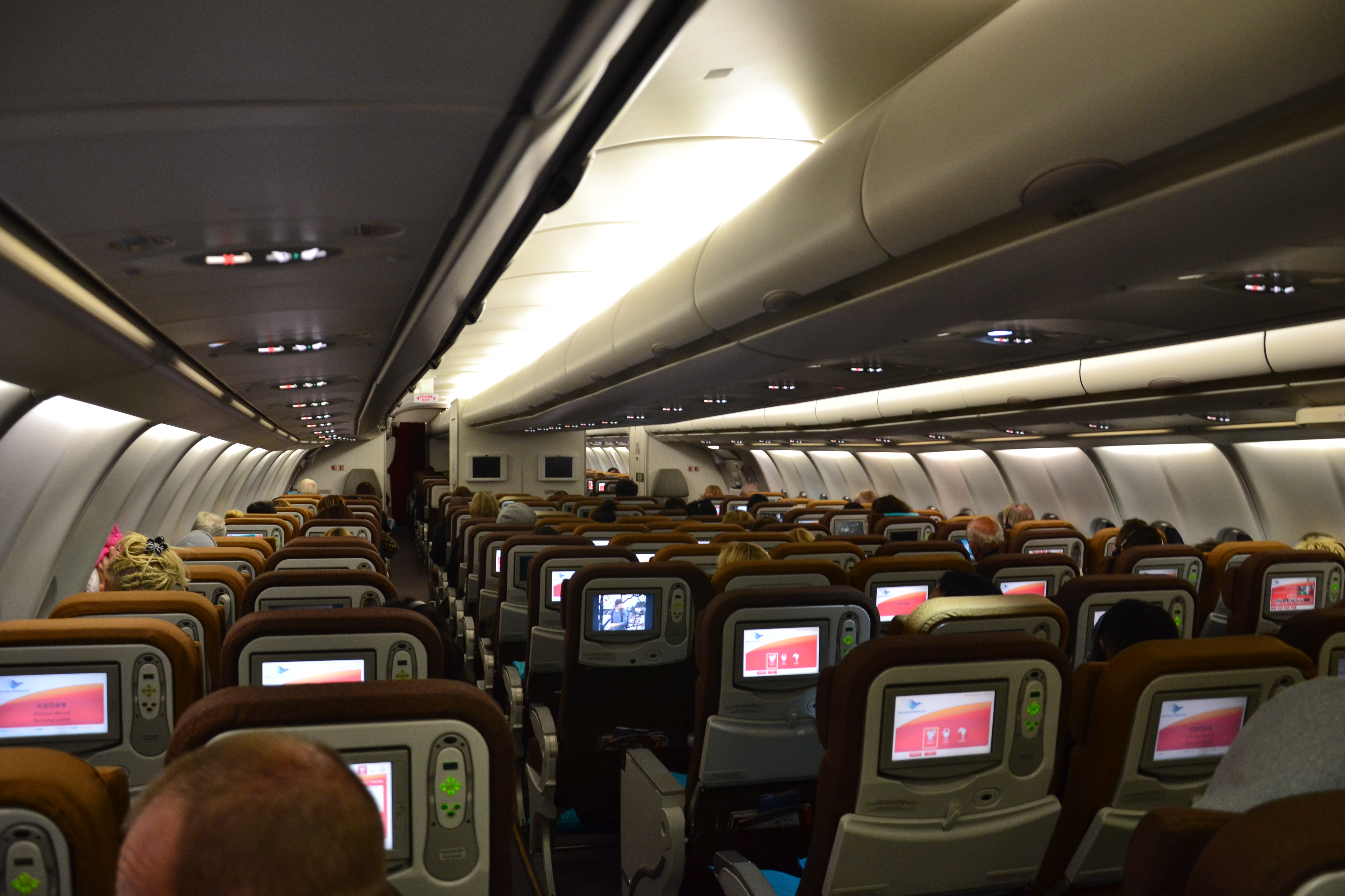 Taken from the 'back of the bus', row 33 on the overnight flight from Denpasar to Sydney onboard a Garuda Indonesia A330-200.